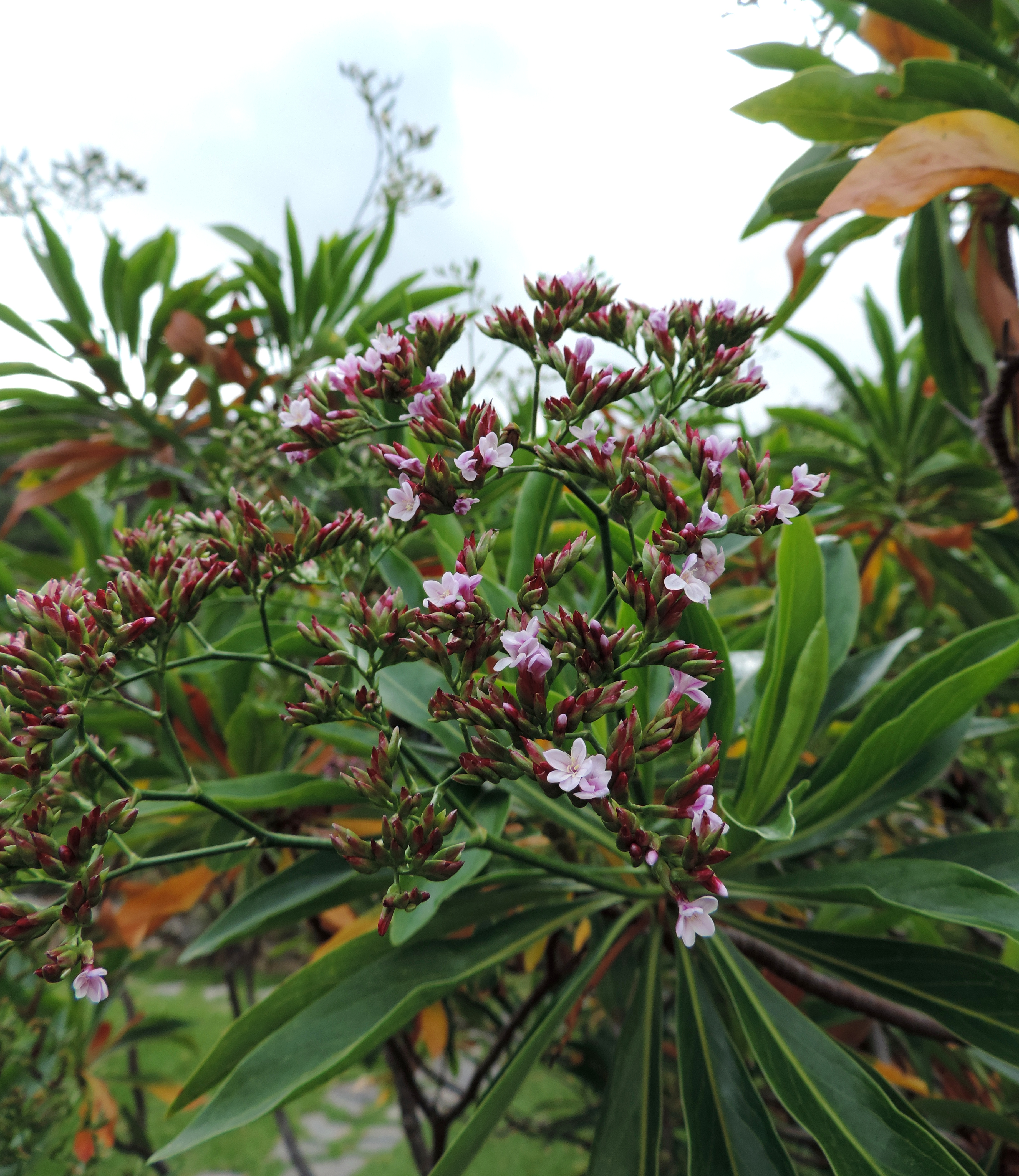 Limonium dendroides in Jardín Botánico Canario Viera y Clavijo